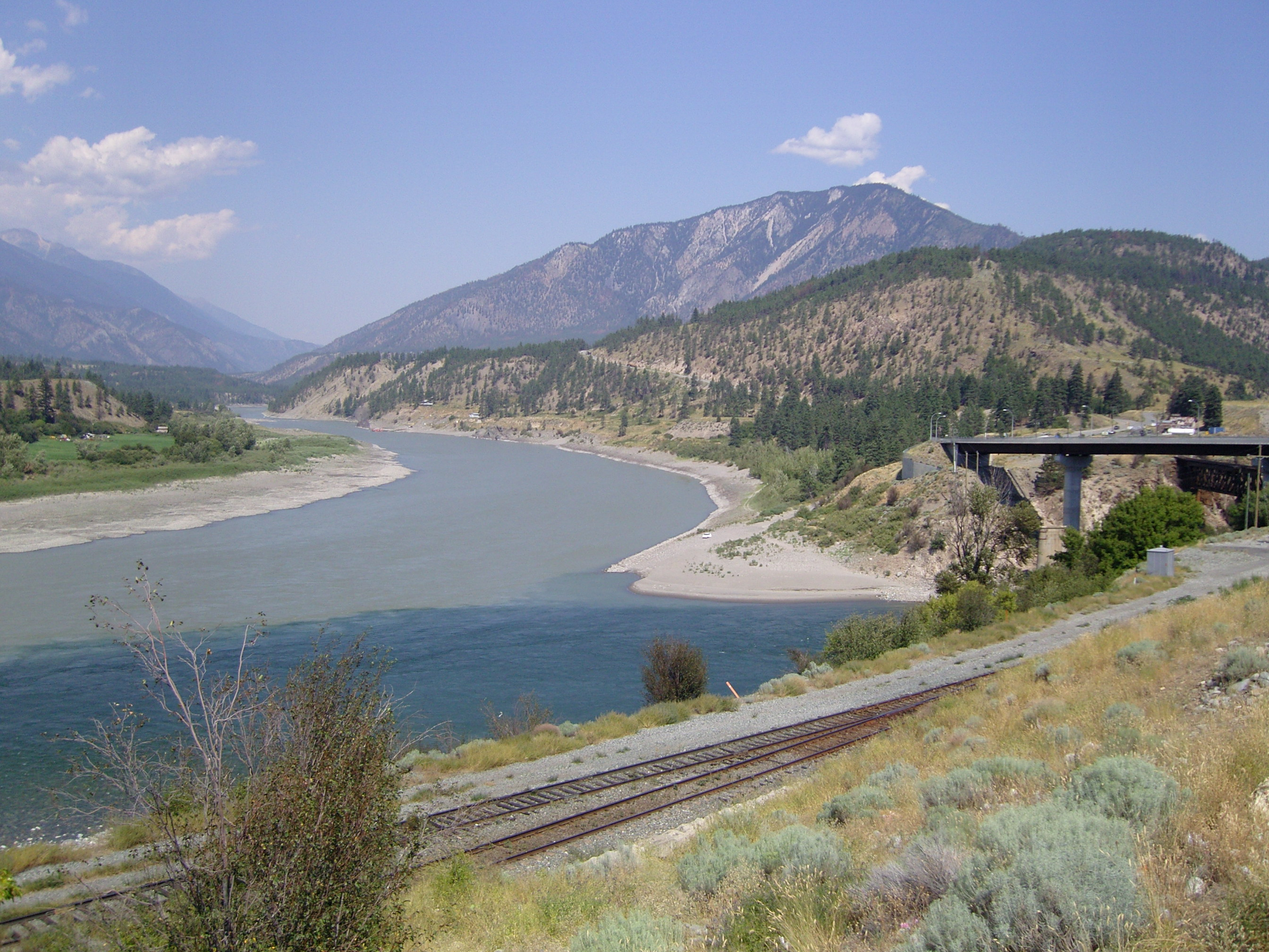 The confluence of the Fraser River and Thompson River at Lytton, British Columbia, showing the boundary between the two waters.